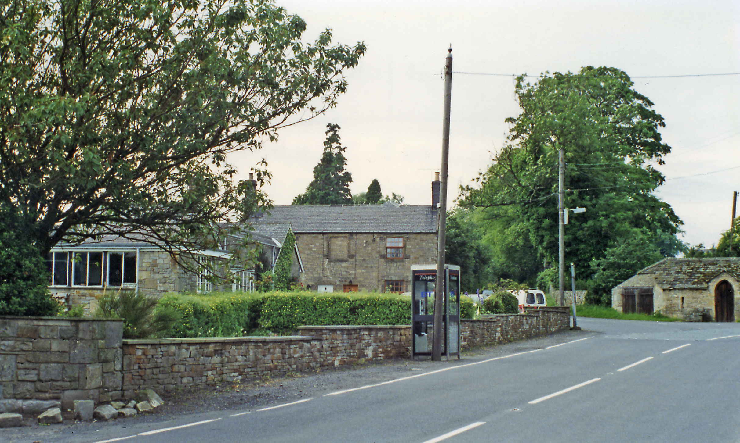 Site of Chollerton station, 1997. View northward on A6079 where it used to cross the ex-NBR Hexham - Riccarton Junction (Border Counties) line. The station and line closed for passenger services on 15/10/56, for goods on 1/9/58.